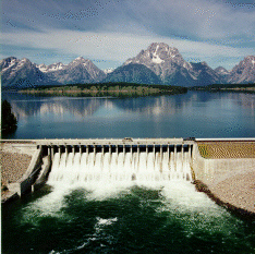 Aerial view of Jackson Lake Dam on Jackson Lake in Teton County, Wyoming, USA. The dam is situated within Grand Teton National Park. The Snake River flows out of Jackson Lake through this dam. The dam was constructed to raise the natural level of Jackson Lake to store water for agricultural irrigation in the Snake River basin in Idaho. View is to the west. Original GIF image changed to JPG by contributor.